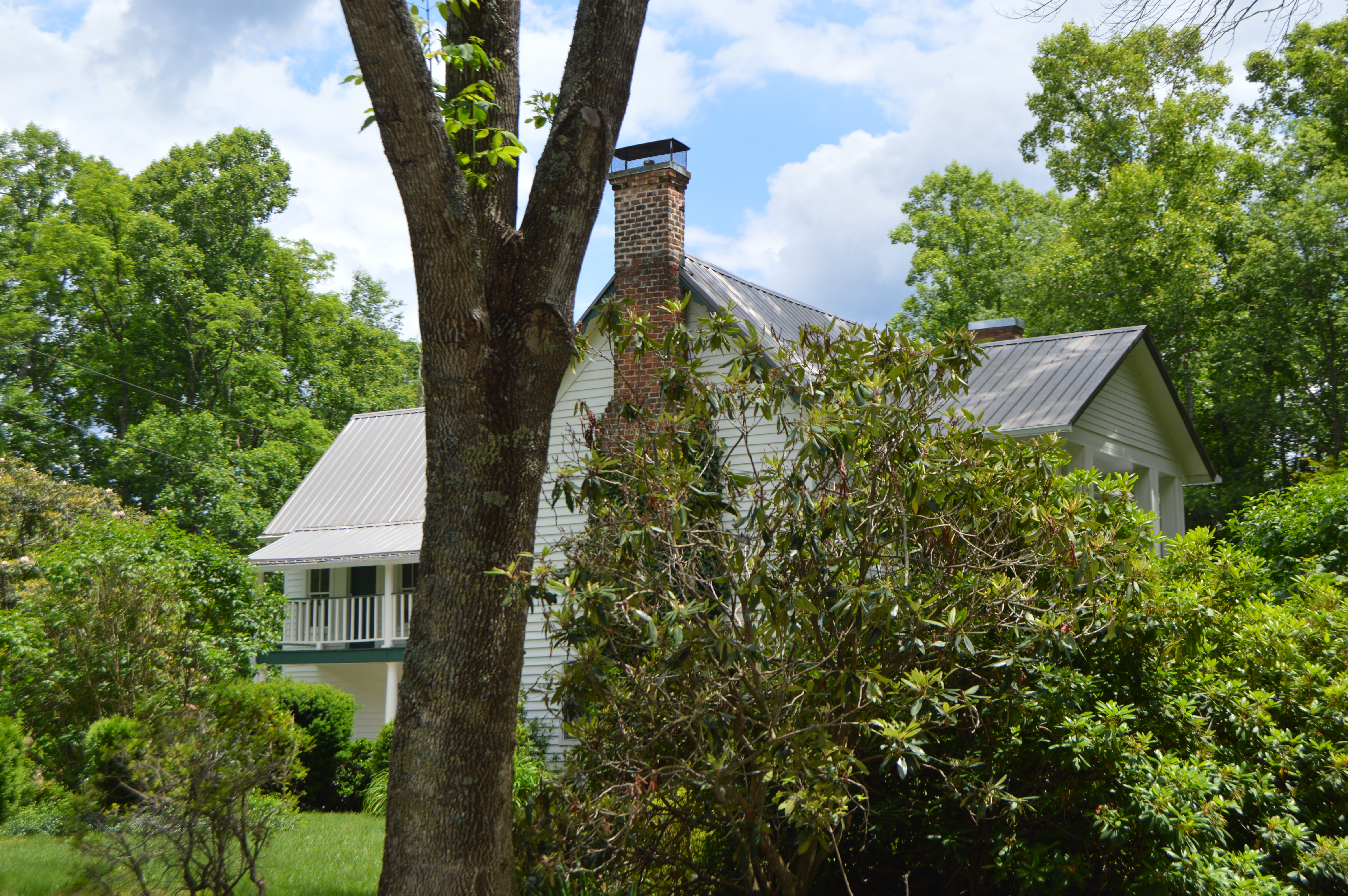 Northern side and front of the Franklin-Penland House, located at 8646 North Carolina Highway 183 at Linville Falls in Burke County, North Carolina, United States. Built in 1883, it is listed on the National Register of Historic Places.